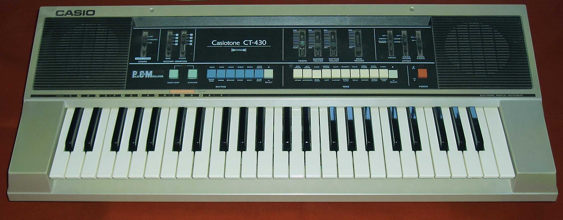 my Casiotone CT-430 photo